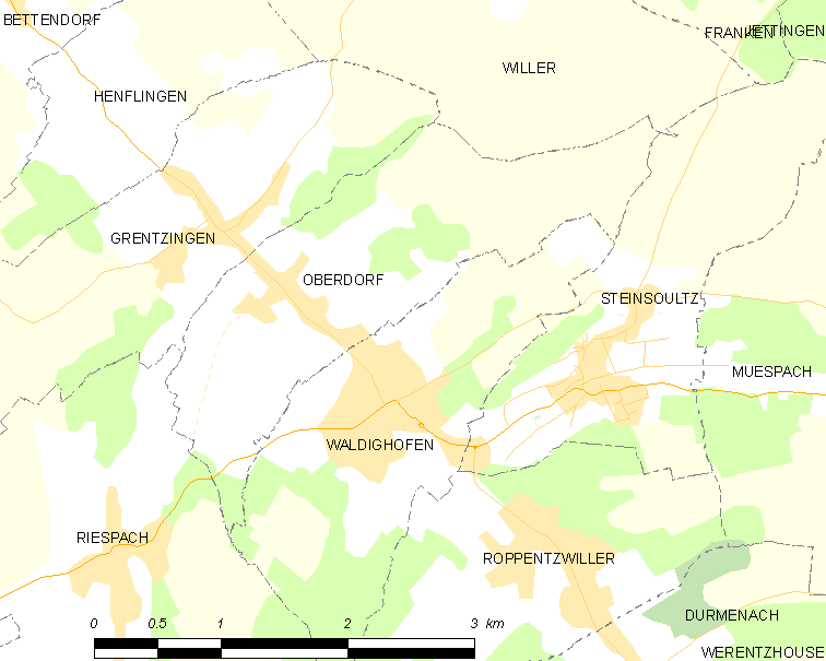 Map of French municipality